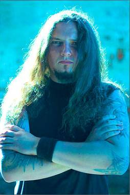 Dariusz "Daray" Brzozowski (drums), member of polish death metal band Vader